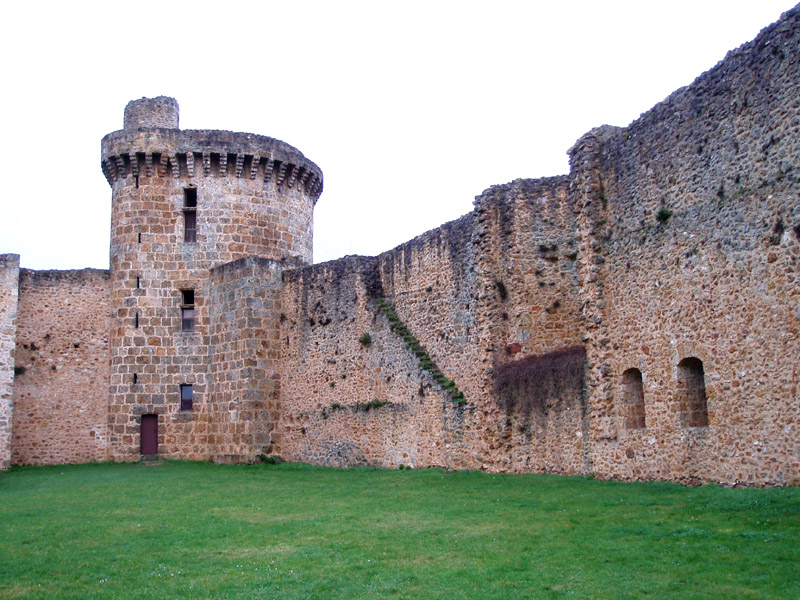 Chevreuse: The Château de le Madeleine, Tower or the Guard